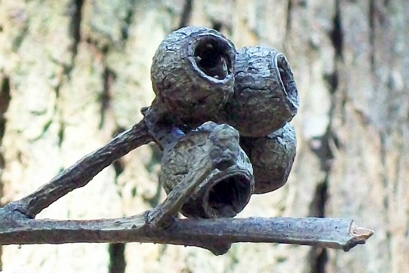 Eucalyptus pilularis gumnuts, Chatswood West